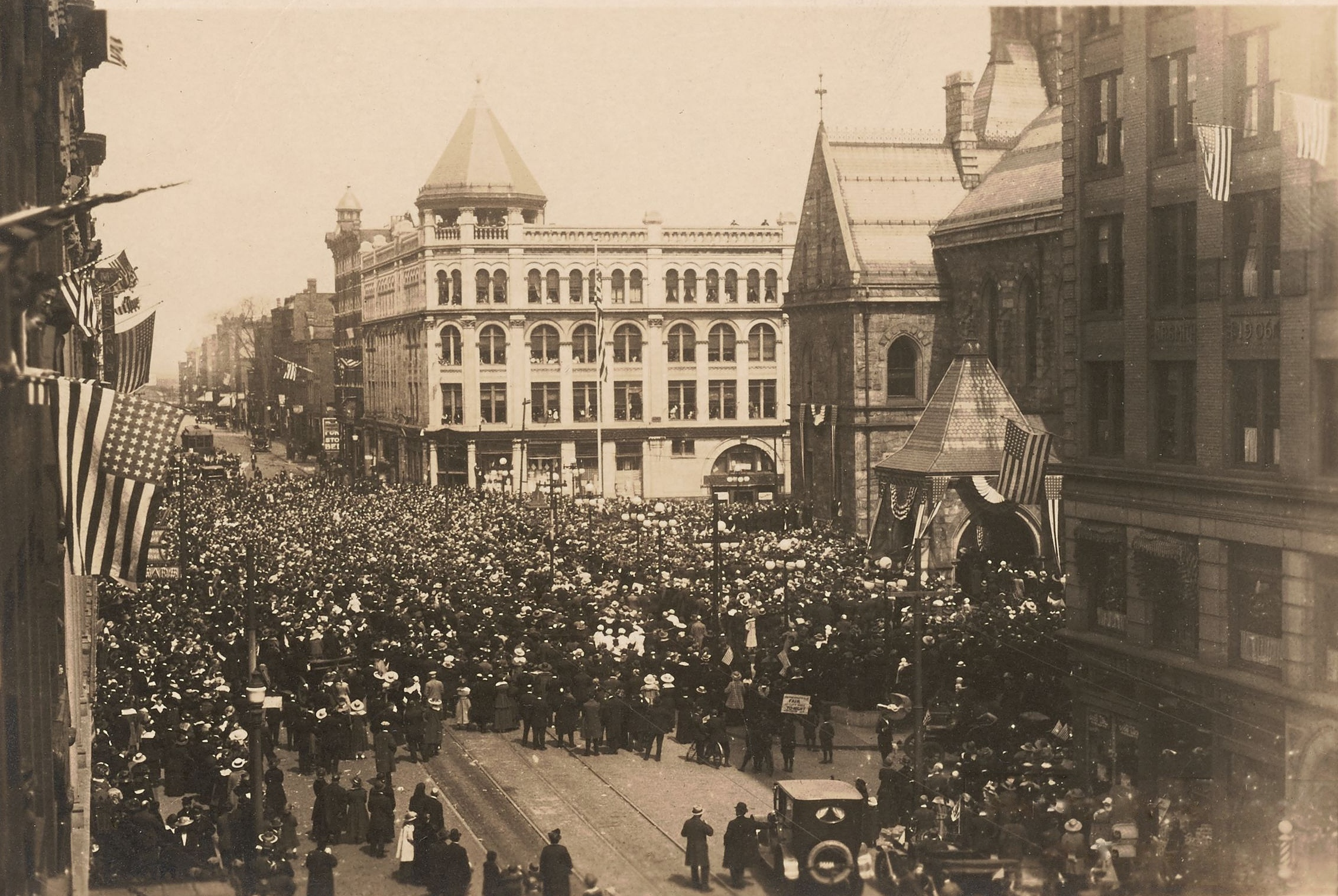 A crowd gathers in front of Holyoke City Hall on Dwight Street in downtown for an event called the "Raising of the Flag", during World War I. Delaney's Marble Block features prominently in the background. Note the 48-star flags seen, reflecting the 48 state Union prior to the additions of Hawaii and Alaska.